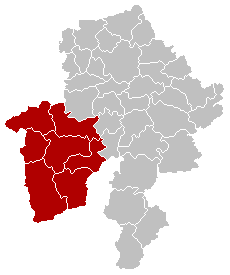 Map of Philippeville District in province of Namur, Belgium.